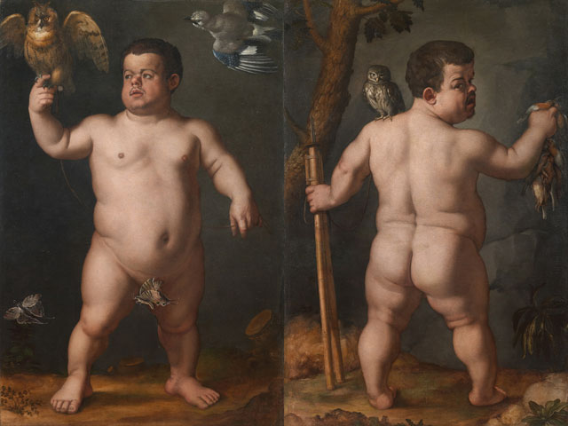 Portrait of a dwarf Morgantе (Nano Morgante) after restoration.